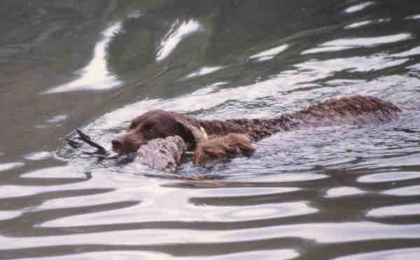 Courtesy American Water Spaniel Club